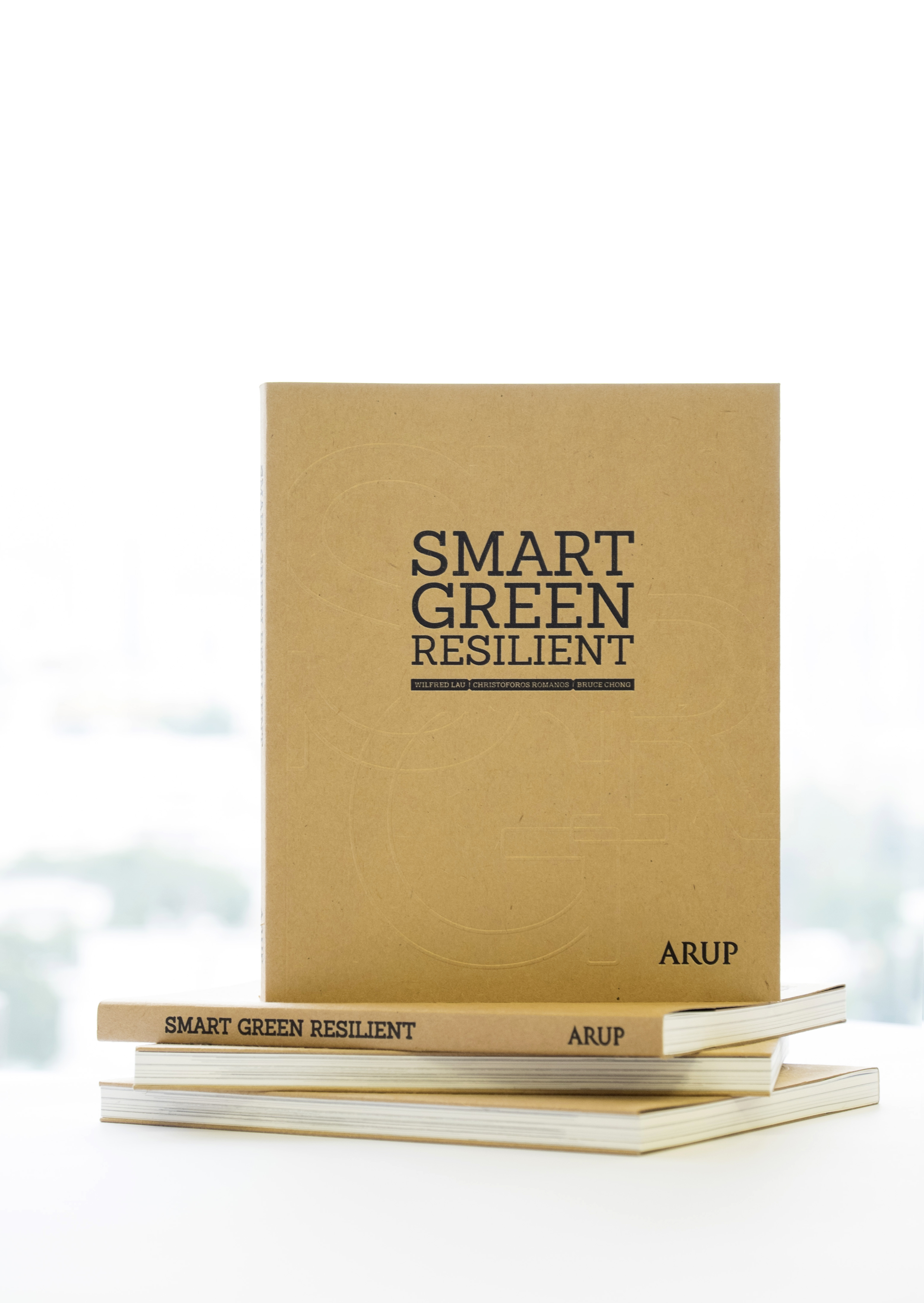 The book cover of the newly launched book on late December 2015 "Smart Green Resilient"